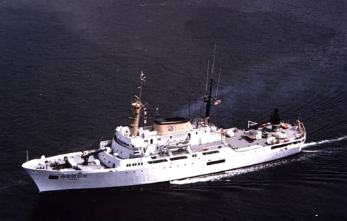 United States Coast and Geodetic Survey oceanographic research ship USC&GS Discoverer, the future National Oceanic and Atmospheric Administration ship NOAAS Discoverer (R 102) in Alaskan waters